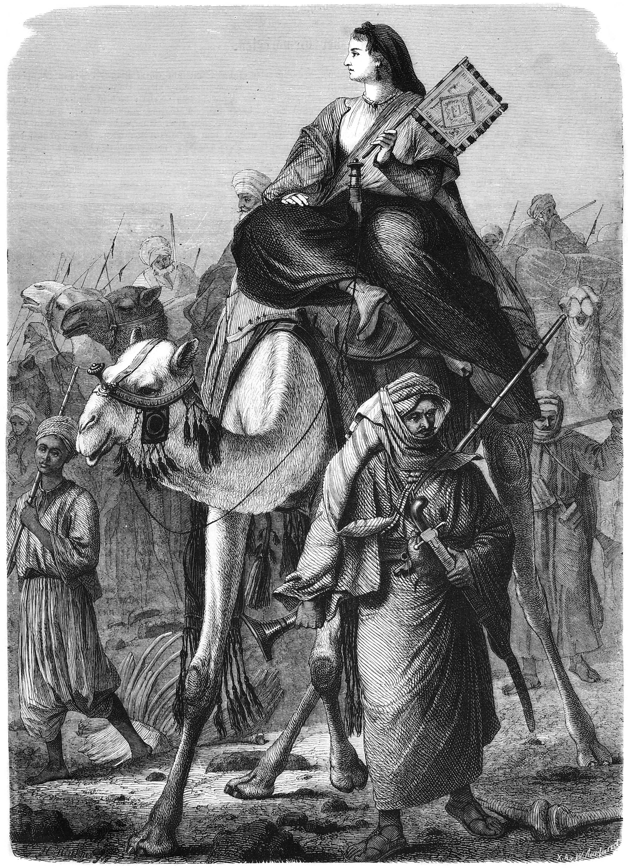 caption: "Alexandrine Tinne auf der Reise. Nach der Natur aufgenommen von W. Gentz."